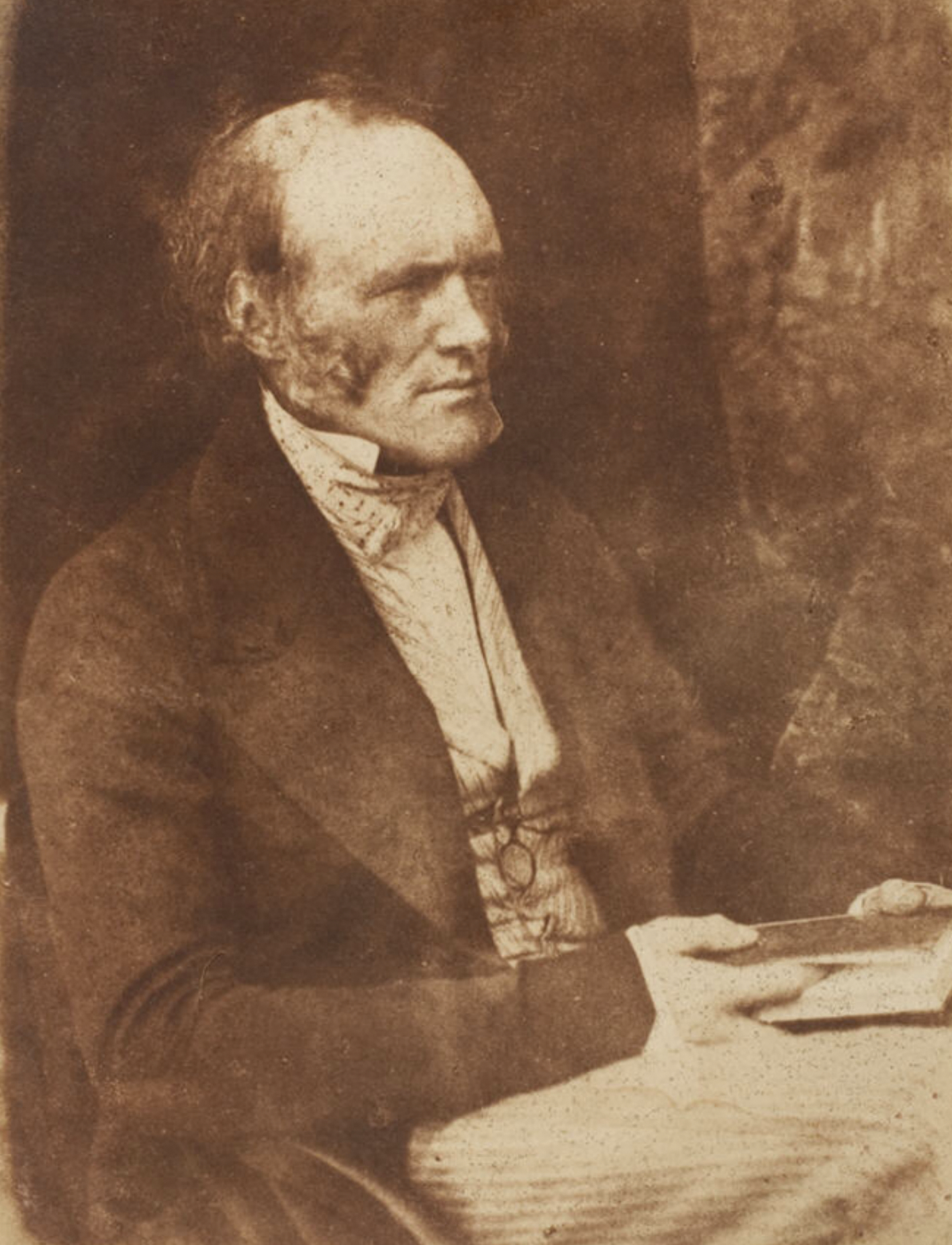 Sir Charles Lyell - Geologist. Salted paper print from paper negative.